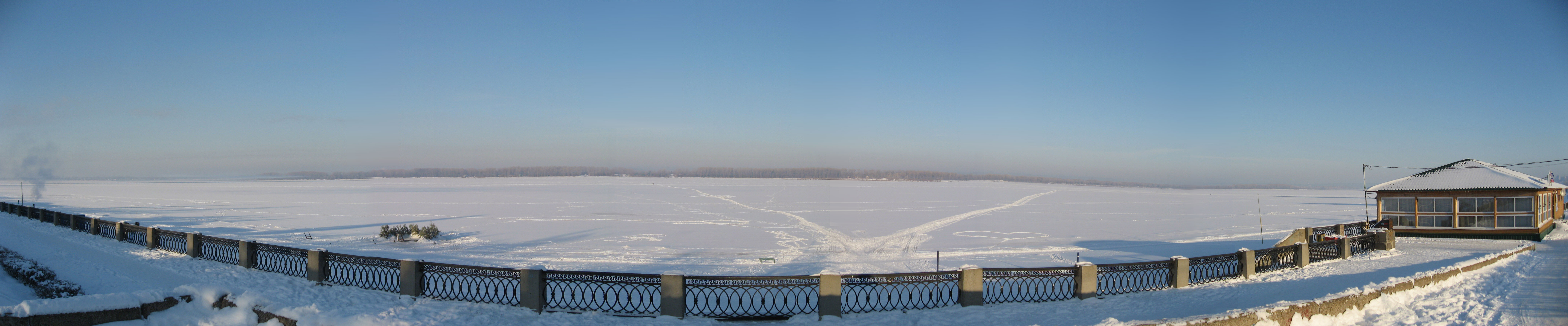 panoramic view of the Volga River, as it looks from the quay of Samara city